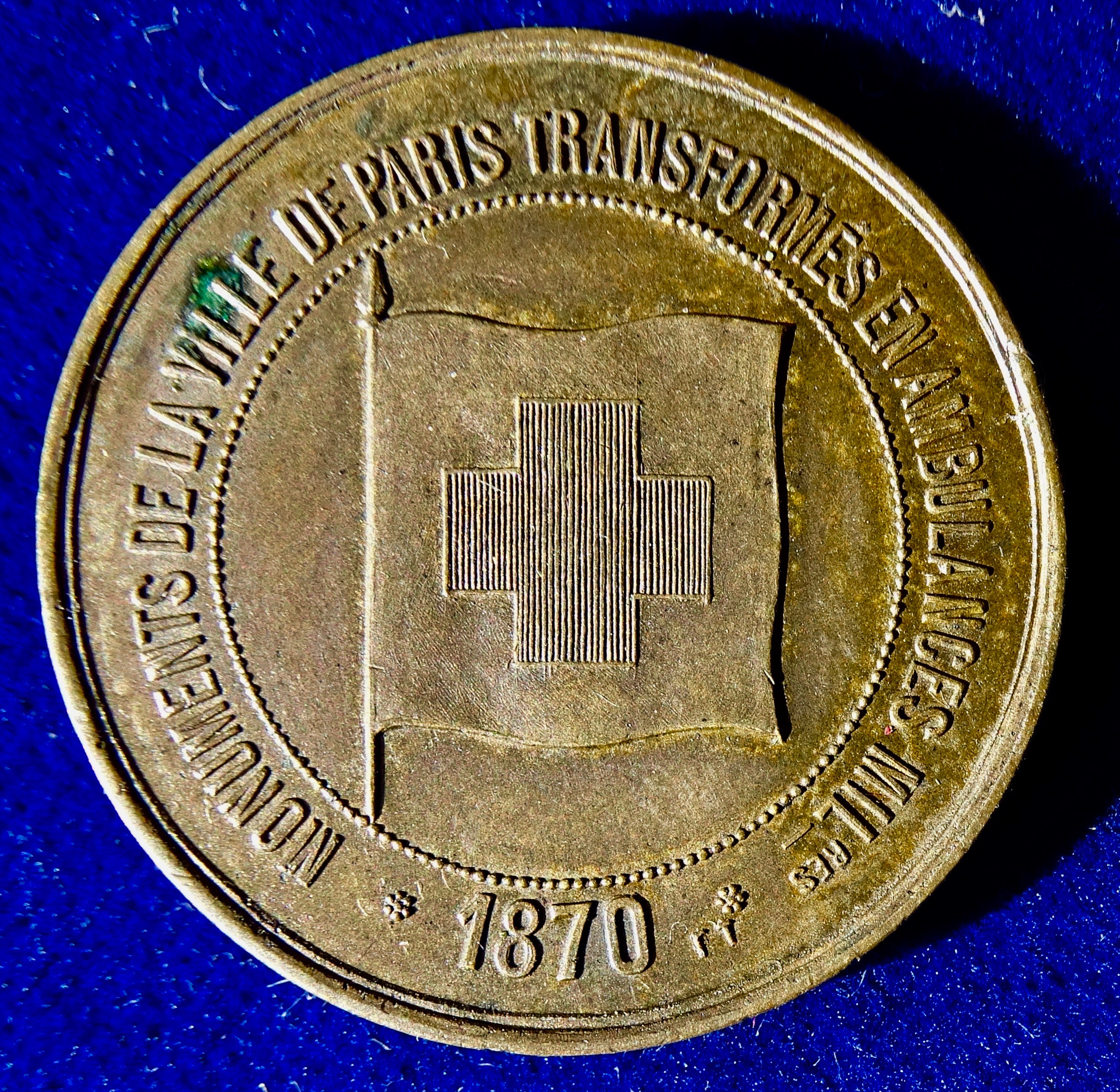 Franco-Prussian War 1970 Red Cross Medal, Bateaux-Mouche Boats for Wounded Soldiers. Bronze medallion, d. = 32 mm. Bateau-Mouche excursion boats provide visitors to Paris, France, with a view of the city since 1867. In the War of 1870-1871 they were used by the French Red Cross, like several Paris public buildings, to accommodate wounded soldiers. Around flag of the Red Cross: "* 1870 * MONUMENTS DE LA VILLE DE PARIS TRANSFORMÉS EN AMBULANCES MILRES *" / 6 lines within Ouroboros: "LES BATEAUX-MOUCHE AU BORD DE LA MARNE RECOIVENT LES BLESSÉS ET LES TRANSPORTENT A PARIS". Surrounding: "* SECOURS AUX BLESSÉS PENDANT ET APRÈS LA GUERRE". Brettauer 3632; ND11925. Madallist : F.T